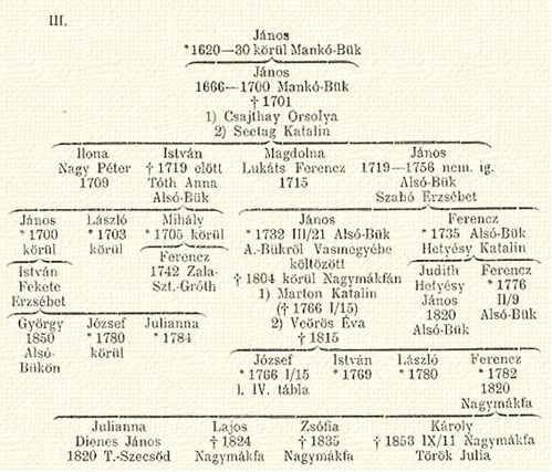 First part of their heraldry